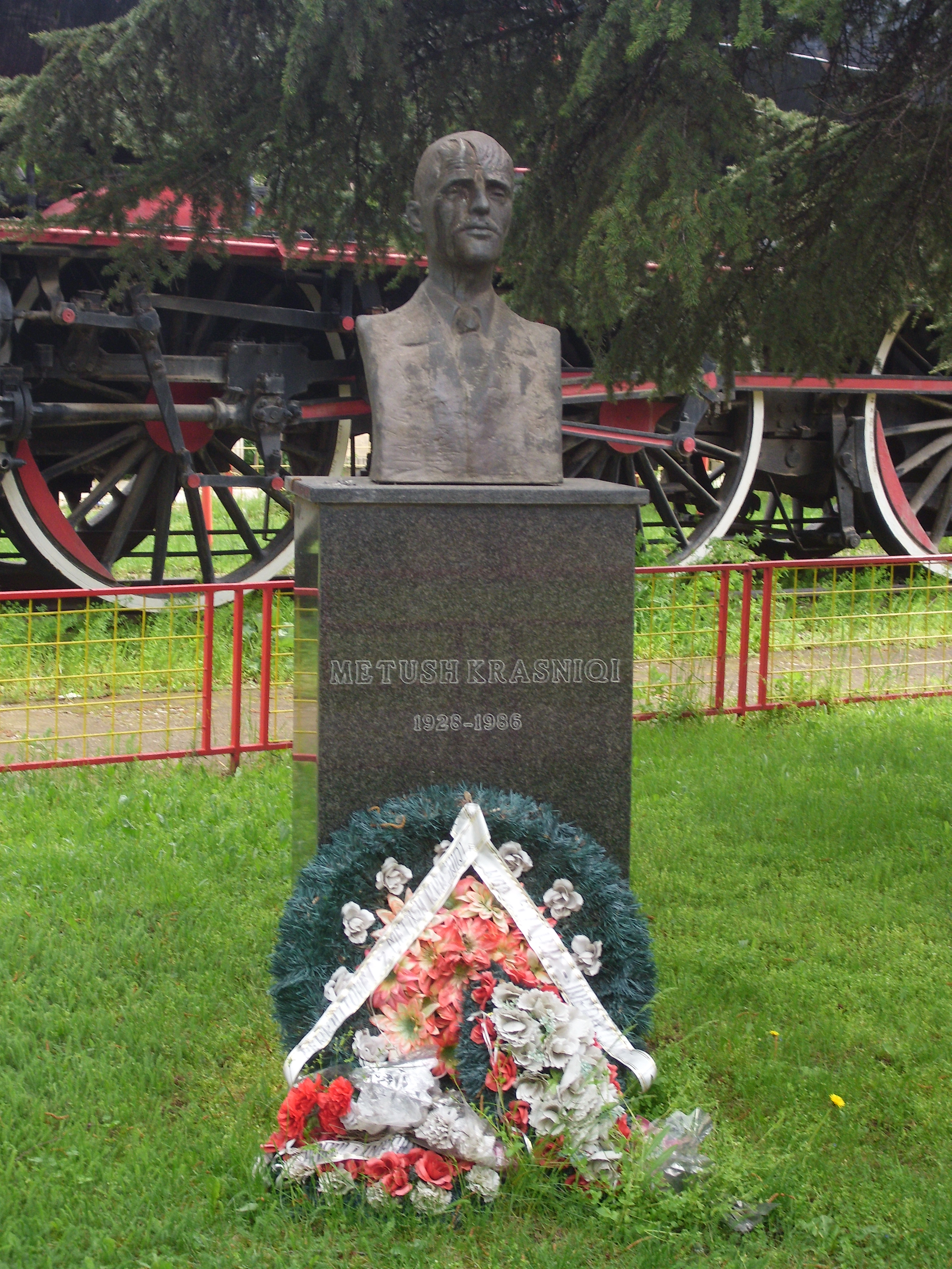 Monument to Metush Krasniqi (1928-1986), Albanian nationalist and political prisoner of the communist regime. It is located in front of a train station in Fushë Kosovë.